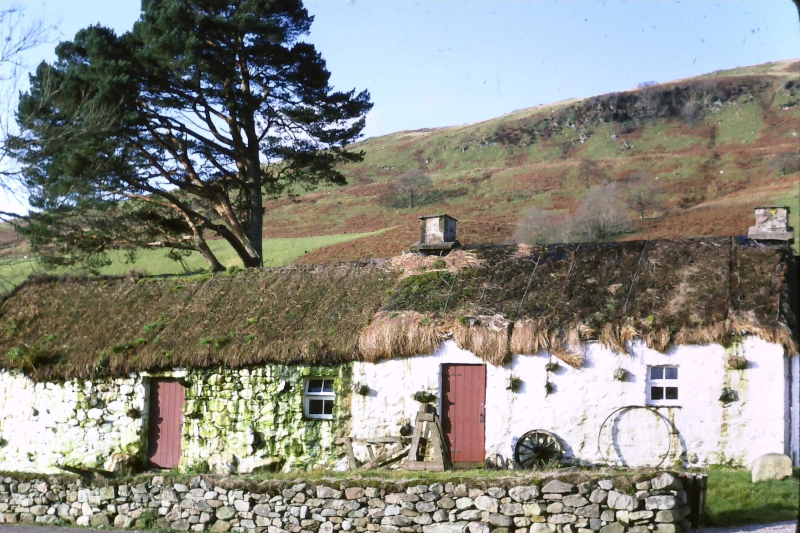 Restored cottages, Auchendrain, Argyll